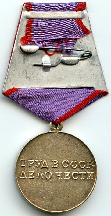 Medal "For Labour Valour" (reverse)